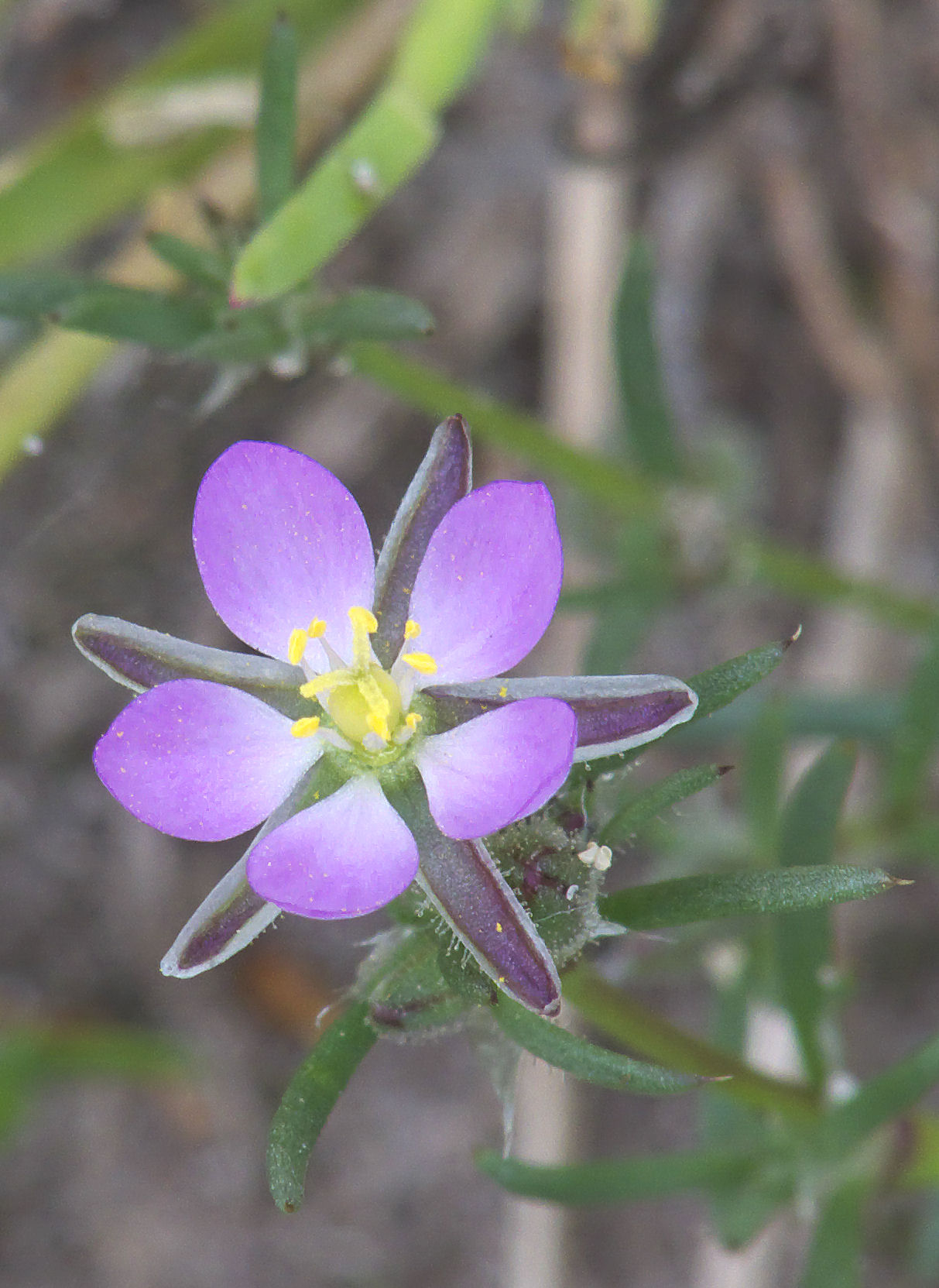 Spergularia rubra